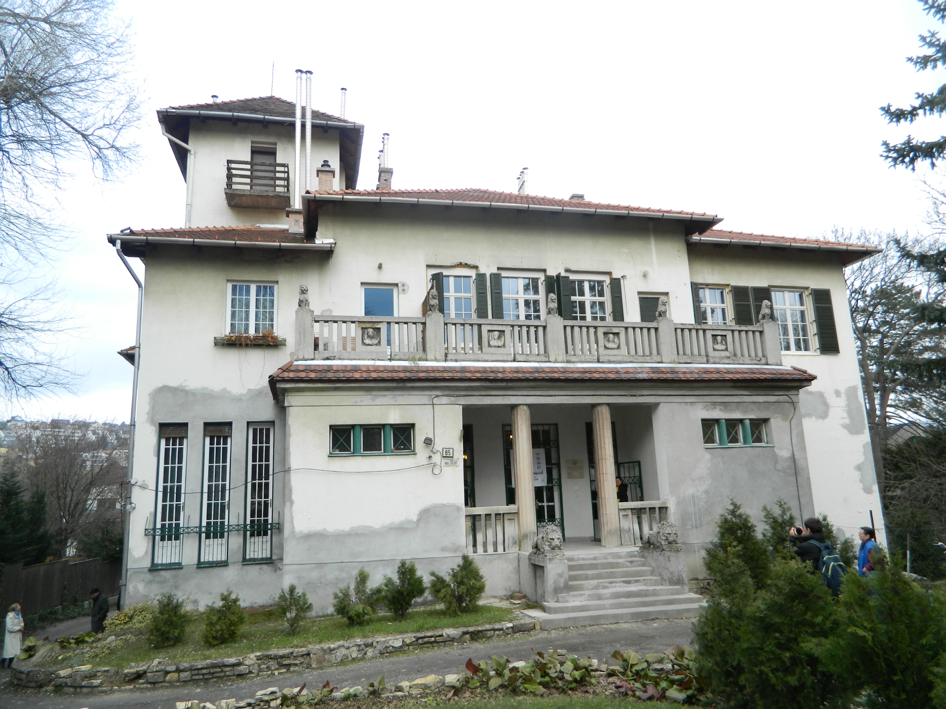 Markus Emilia's Villa in Budapest. There lives Vaslav Nijinsky between 1918-1944.